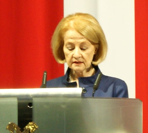 Danèle Nouy, Chair of the Supervisory Board European Central Bank.